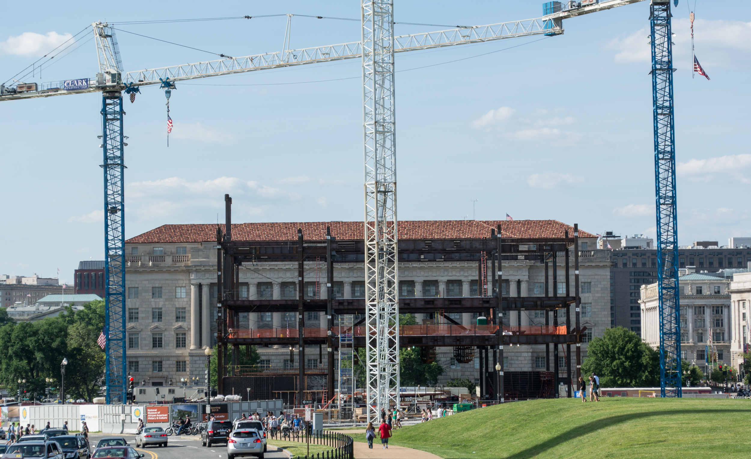 The structural steel forming the National Museum of African American History and Culture rises to the third floor in Washington, D.C., in the United States.